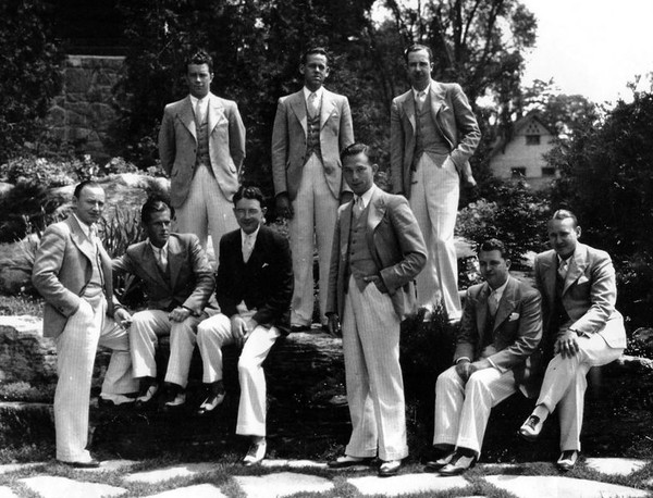 Billie Bissett and His Canadians dance band in Monaco, July 1936. Eric Wild is standing on the back row in the middle.